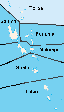 Province of Torba (Vanuatu)